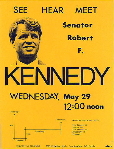 1968 Robert F Kennedy California Primary La Arrival Leaflet